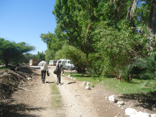 Angle view of biyo kulule.